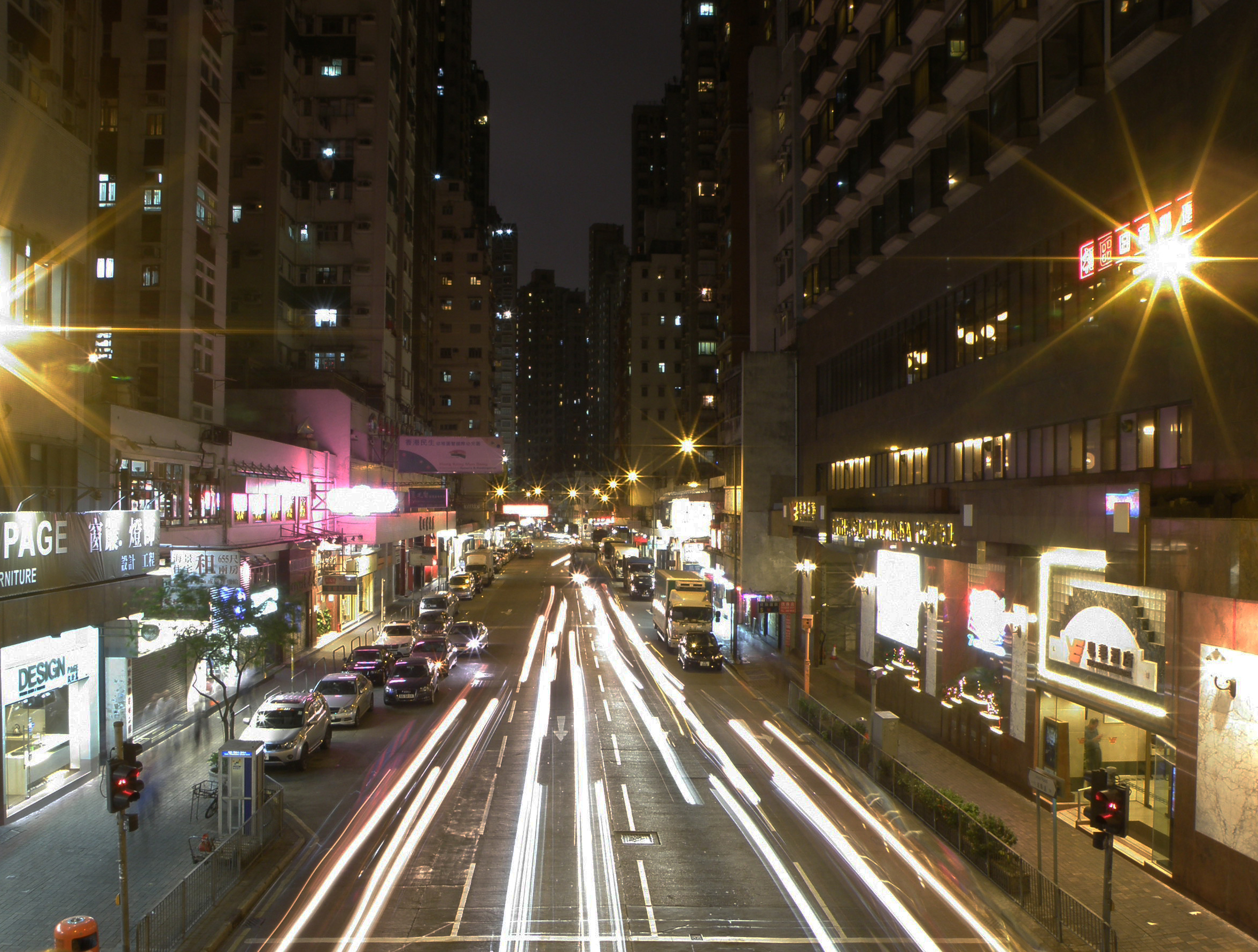 Java Road in North Point, Hong Kong.